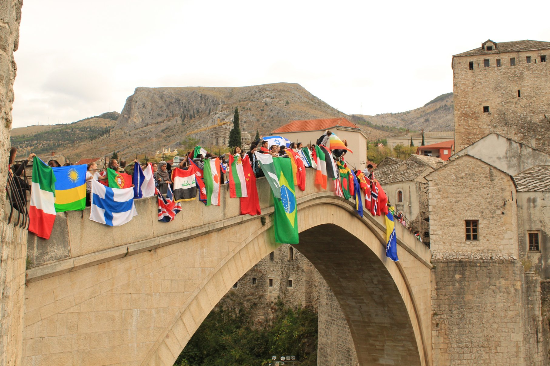 Students of UCW Mostar holding their respective country flag on the iconic Stari Most bridge in Mostar